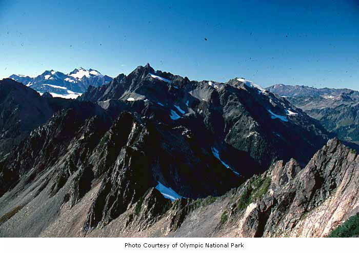 Mount Meany seen from Mount Seattle, Olympic National Park, date unknown, probably September 1990 based on similar photo in collection